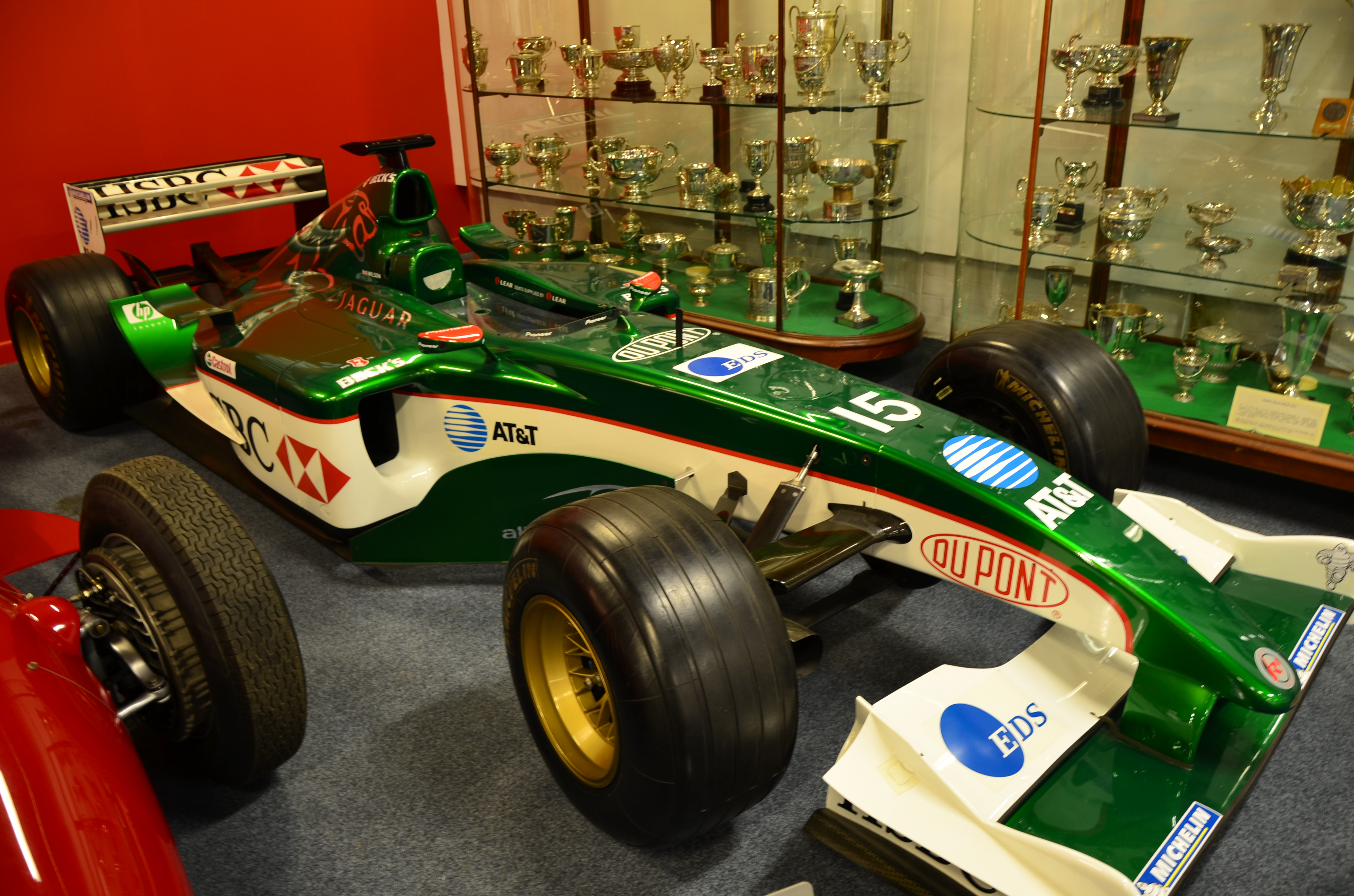 Justin Wilson's Jaguar F1 car